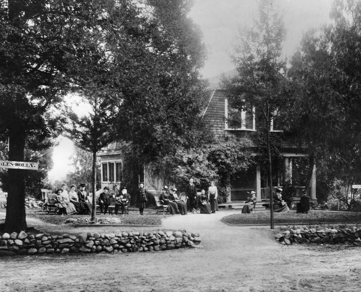 People are seated in front of the first hotel in Hollywood, the Glen-Holly Hotel, at the corner of Ivar and Yucca Streets. The Hotel was run by C.M. Pierce and his wife (shown standing at right).